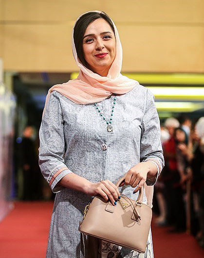 The closing ceremony of Shahrzad series in Tehran’s Milad Tower the series’ cast as well as the country’s artistic and political figures in attendance.